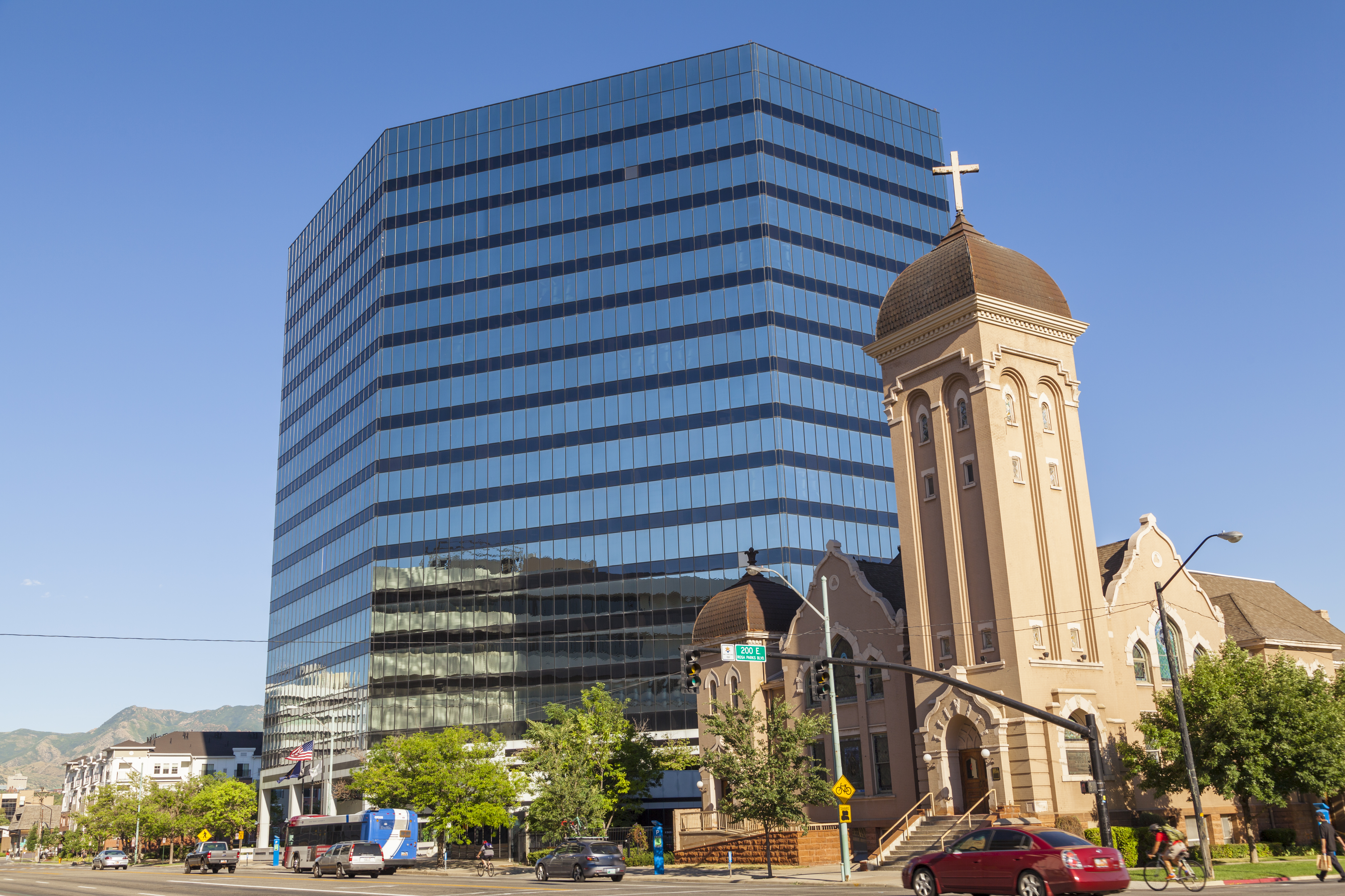 The CenturyLink Building, formerly Qwest Building, in Salt Lake City, Utah, USA.